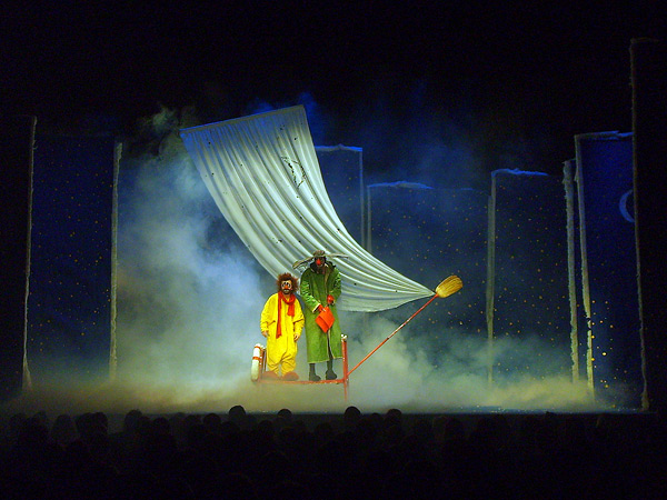 Slava Polunin's Snowshow in Vienna (Austria).